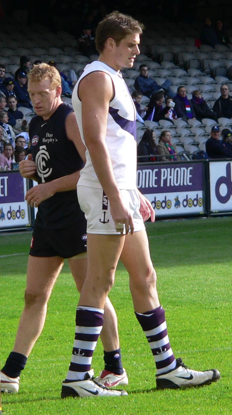 Fremantle Aaron Sandilands towers over Carlton's Lance Whitnall